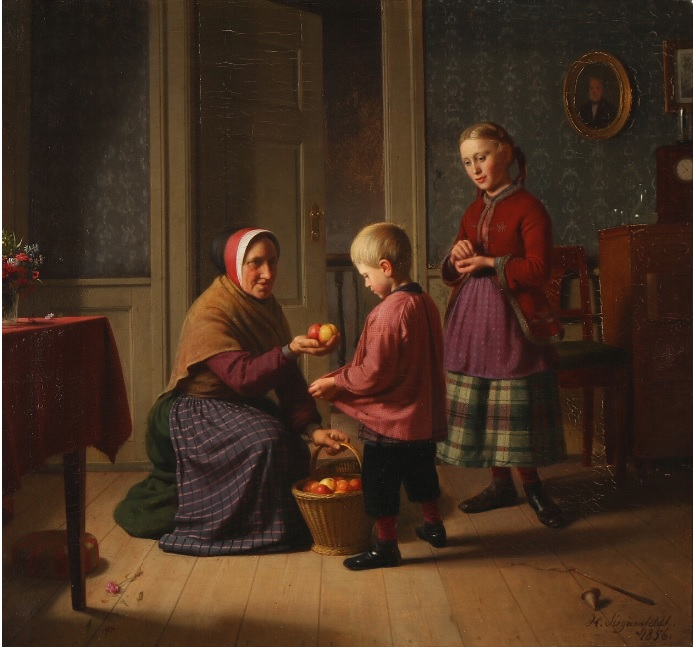 Херман Сигумфельтт. Женщина, предлагающая яблоки детям, 1856.